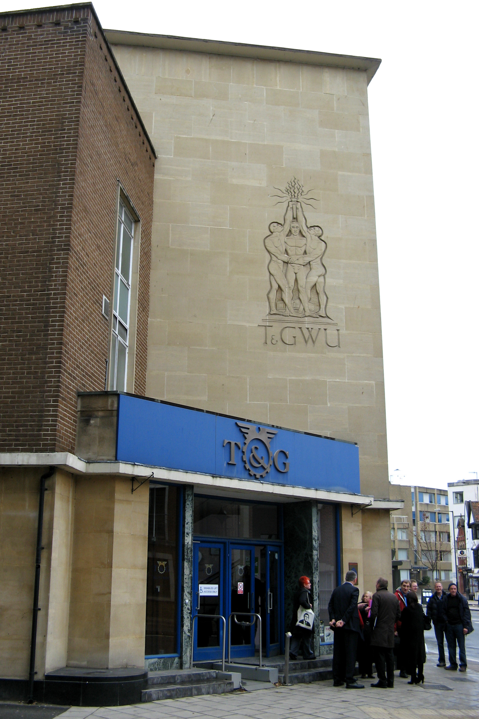 Transport and General Workers' Union office, Transport House, Victoria Street, Bristol BS1 6AY.